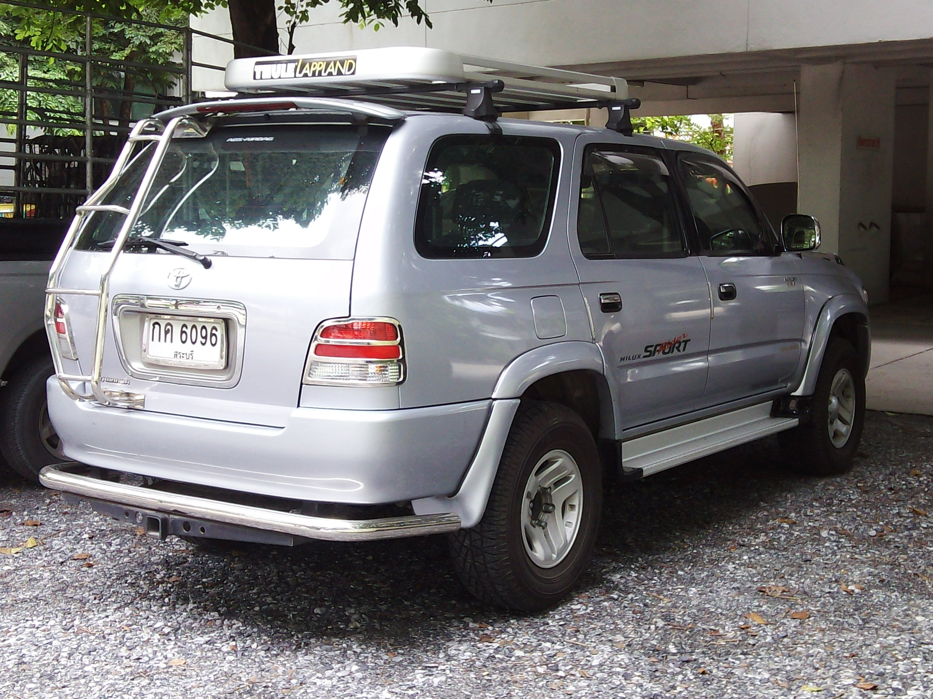 Toyota HiLux Sport Rider in Thailand